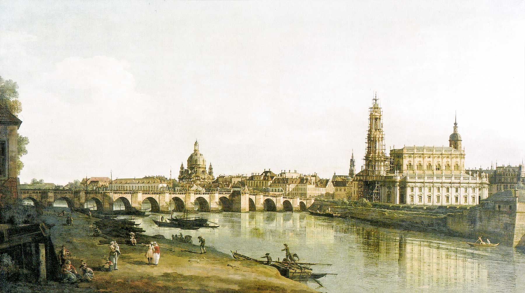 View to the Augustus Bridge and the historic center of Dresden in the 18th century.